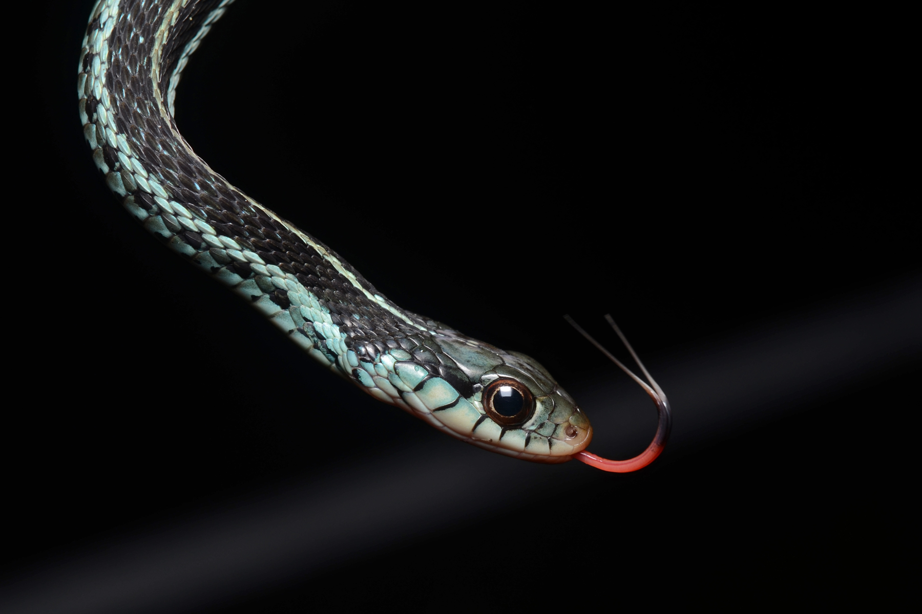 Colubridae: Thamnophis sirtalis similis Levy County, Florida